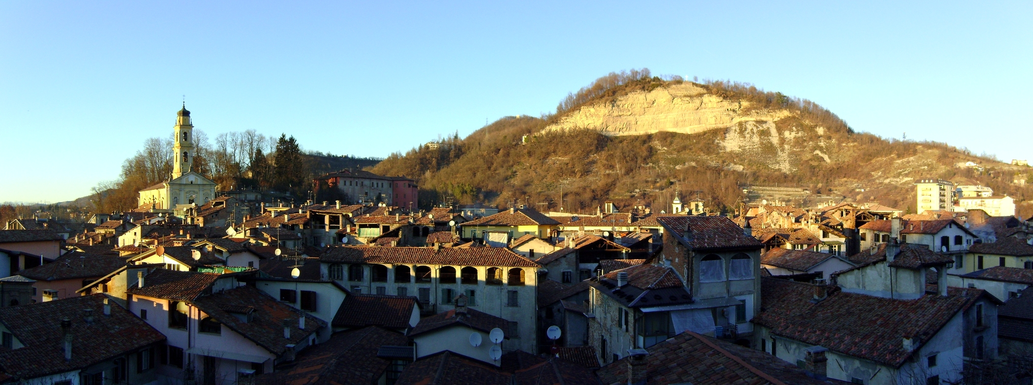 Landscape of the hystoric center of Ceva (Italy)